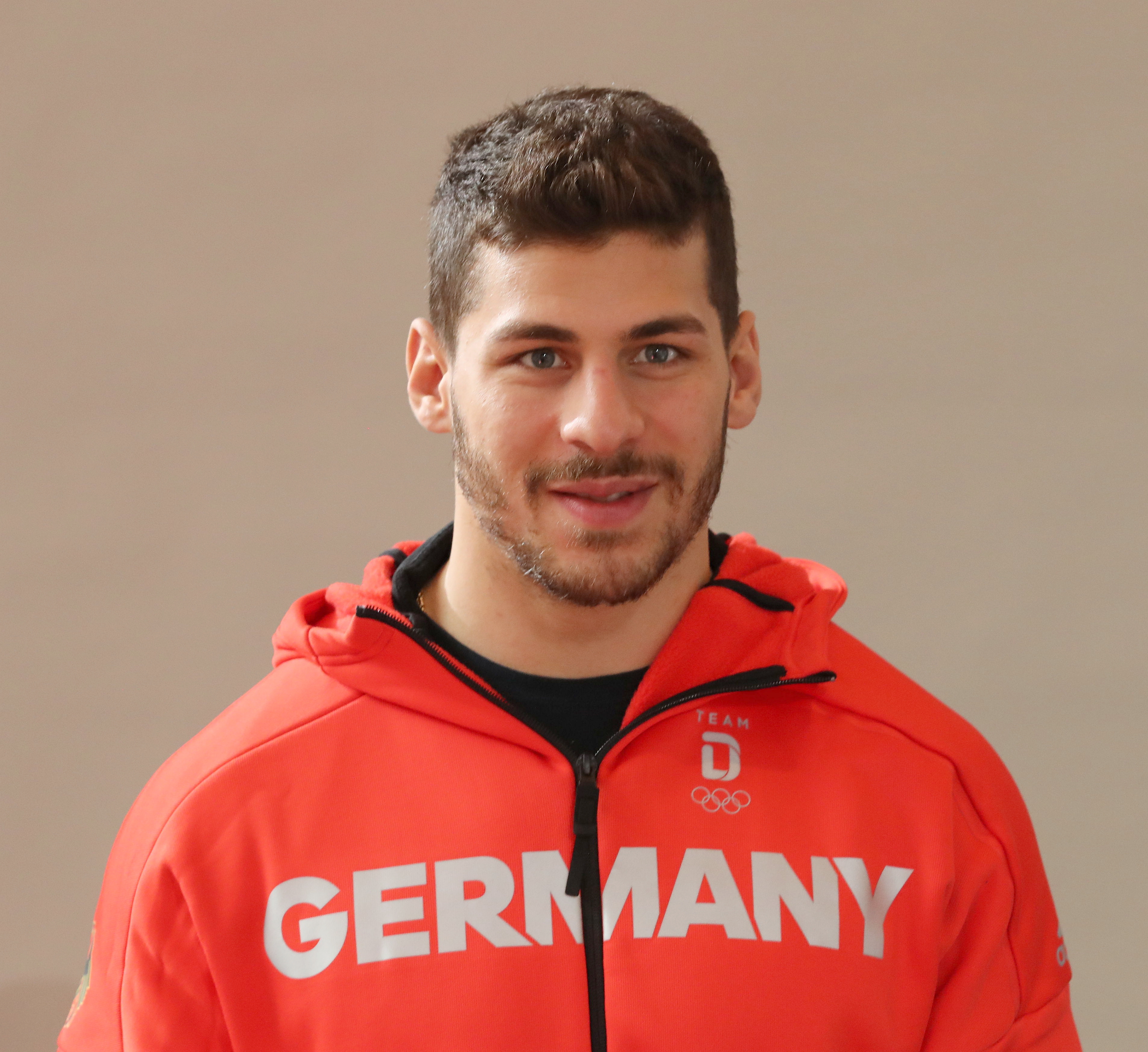 Portraits at the Clothing of the German team for Winter Olympics 2018 in Pyeonchang.